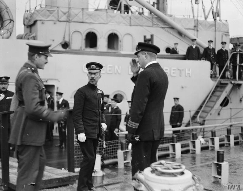 British Diplomacy, 1914-1918 Prince Fushimi with Prince Arthur of Connaught coming aboard a British torpedo boat destroyer.